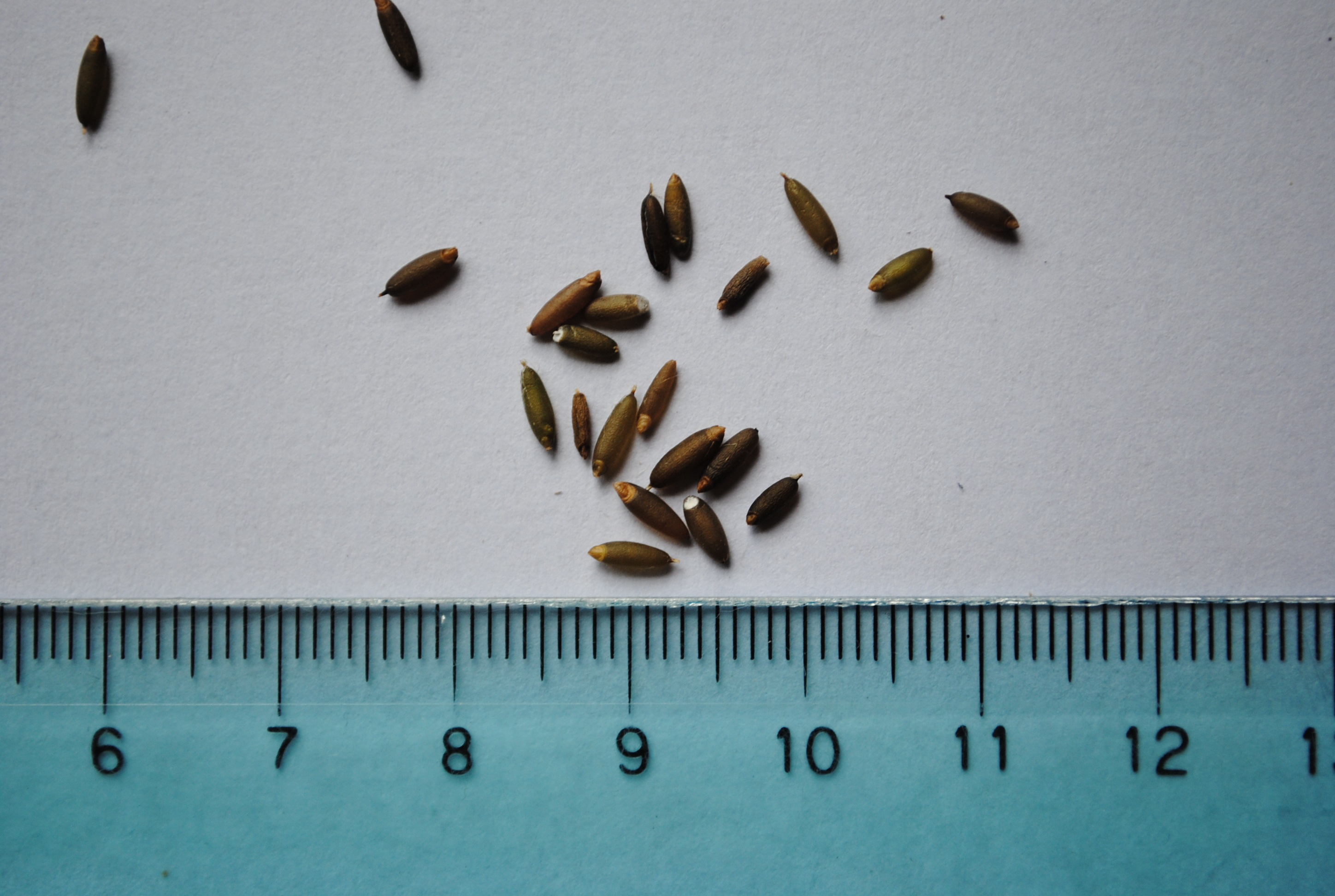 Seeds of "Caña colihue" Chusquea culeou